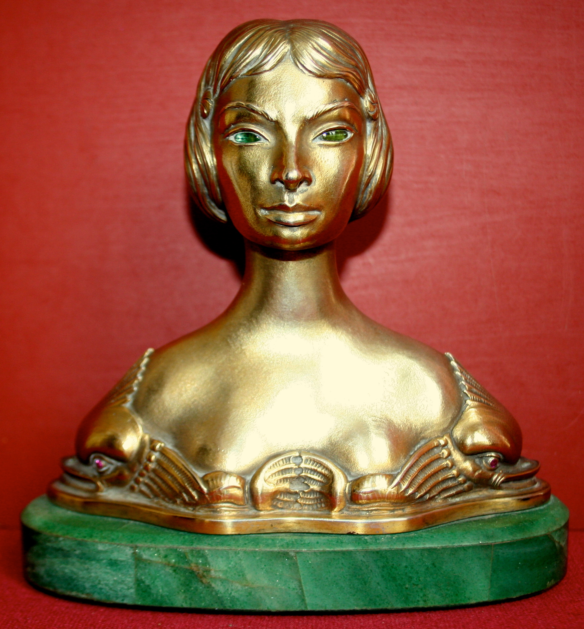 Pincess Soraya Esfandiary-Bakhtiary by Renato Signorini (Asmara 1902 - Rome 1966)